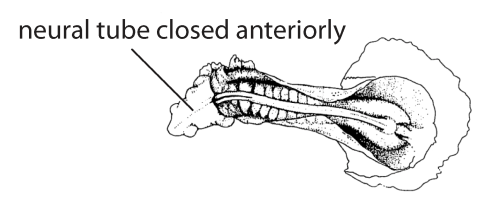 Standard Event System character depiction